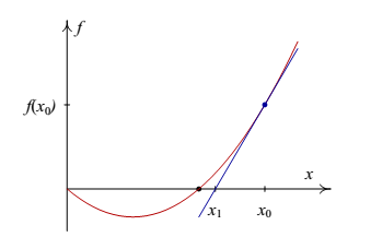 {Método de Newton para aproximação a uma raíz.